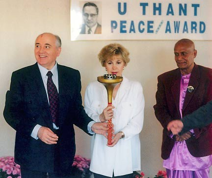 Mikhail Gorbachev his wife Raisa and Sri Chinmoy 1994.